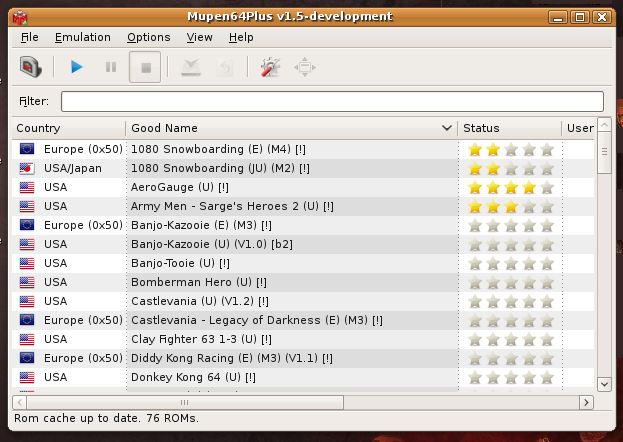 Snapshot of Mupen64Plus